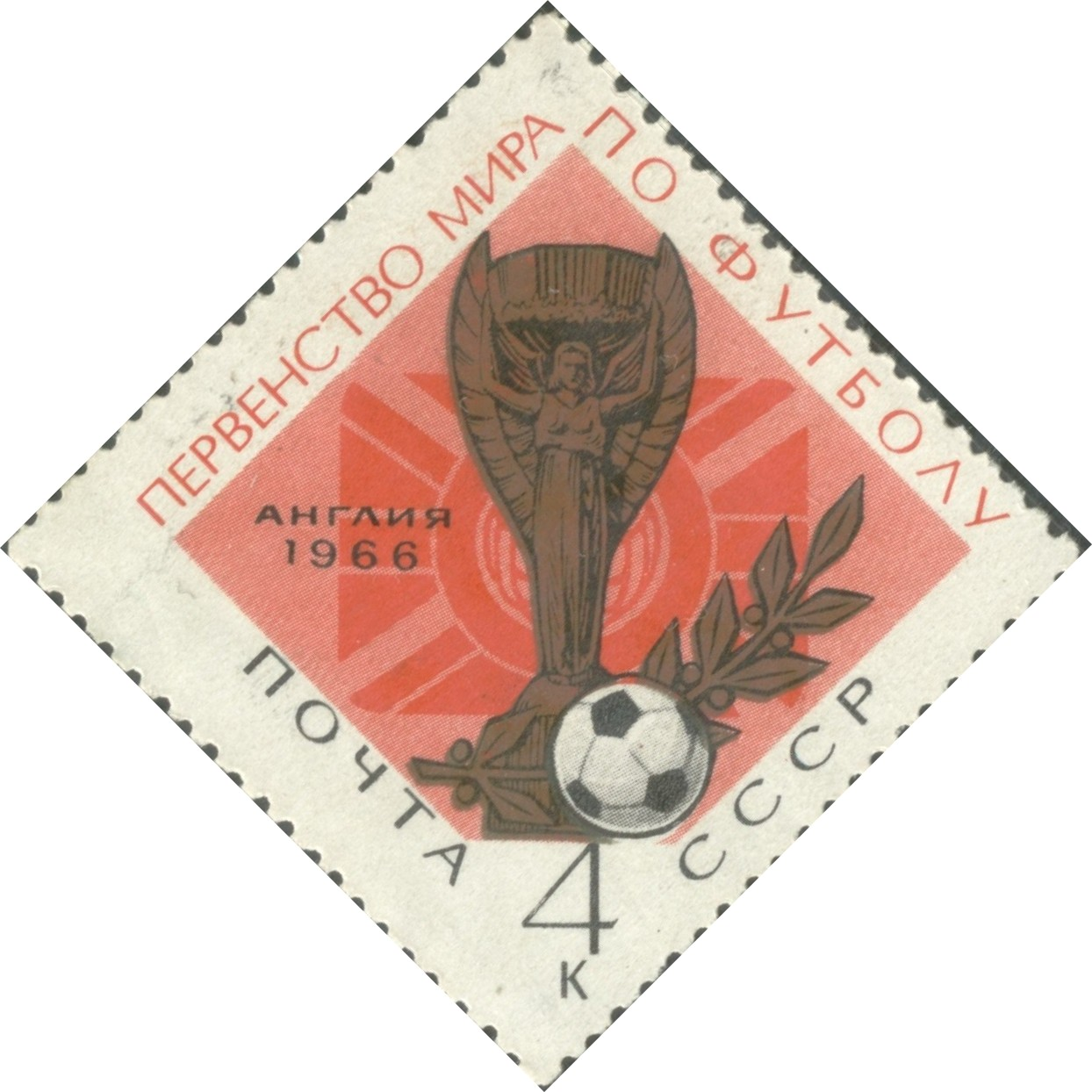 A 1966 USSR stamp, Michel no. 3226, commemorating the FIFA World Cup and featuring the Jules Rimet trophy.